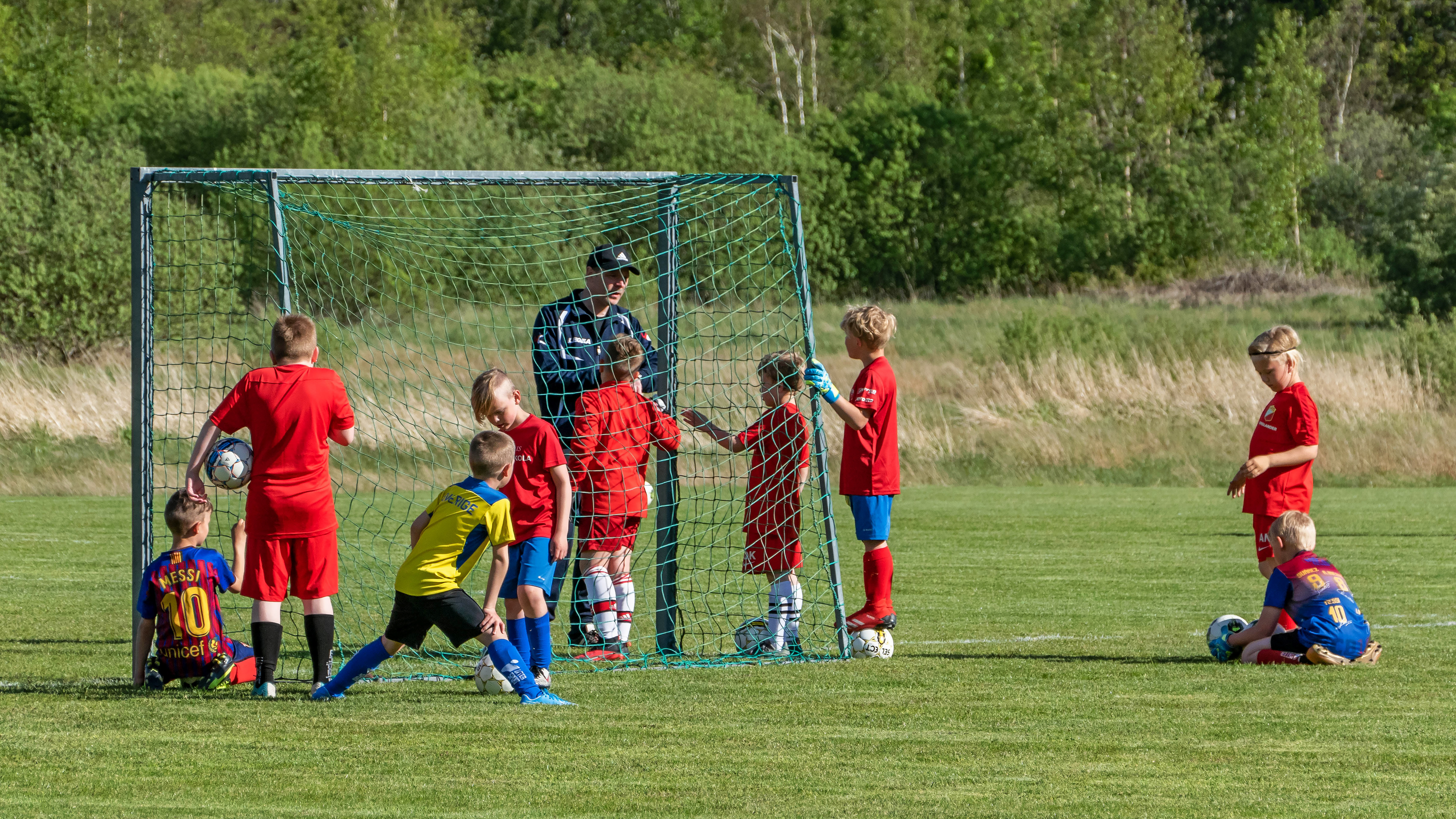 Stångenäs AIS kids' soccer practice in Brastad Arena south soccer training field in Brastad, Lysekil Municipality, Sweden.